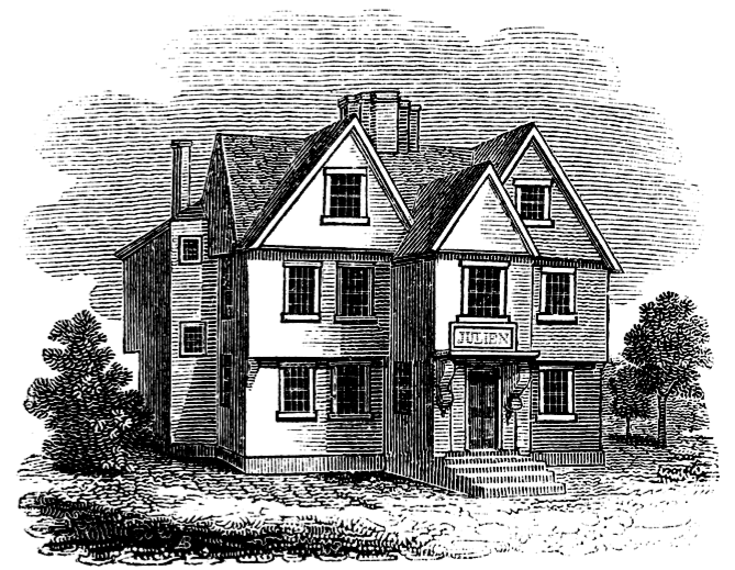 "Julien's Restorator, at the corner of Milk and Congress-Streets, demolished in July 1824." Boston, Massachusetts